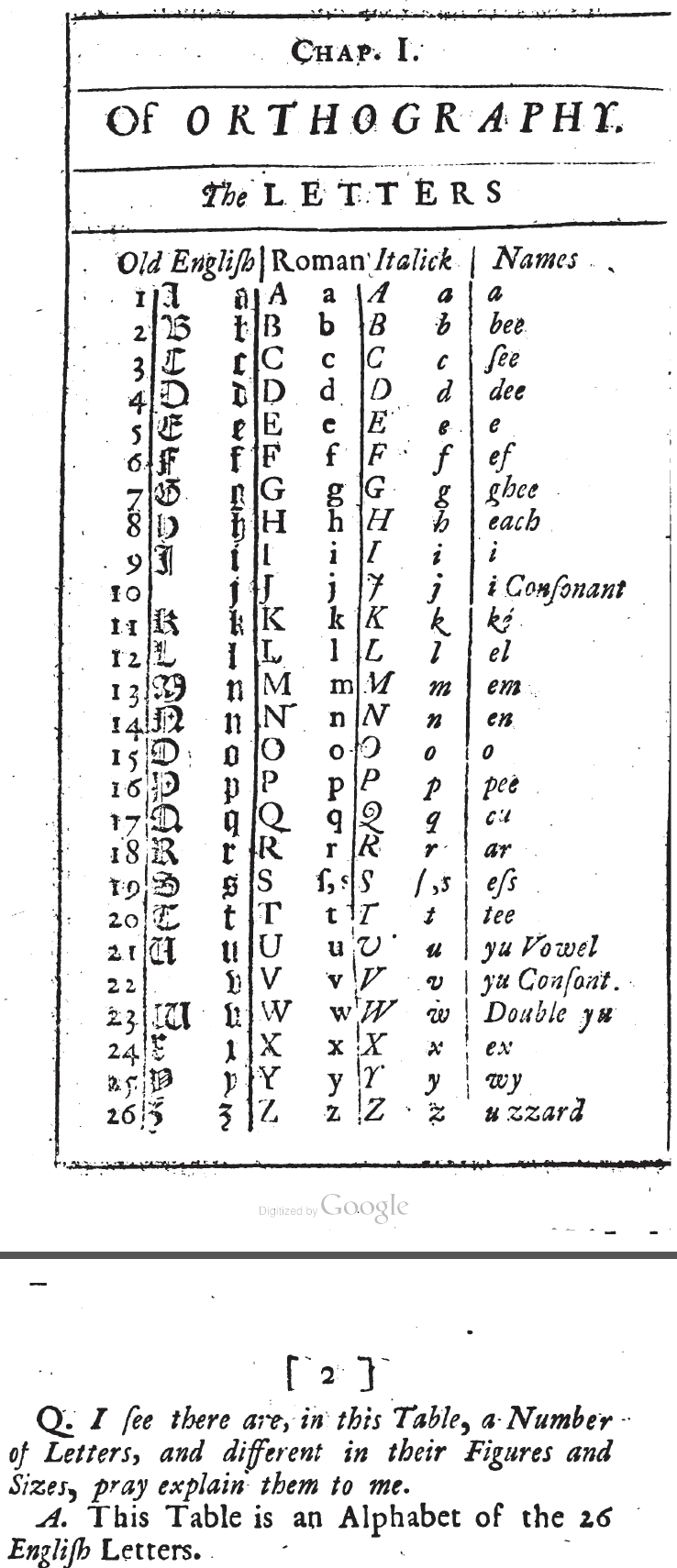 Showing an alphabet table containing 26 letters, as explicitly stated.